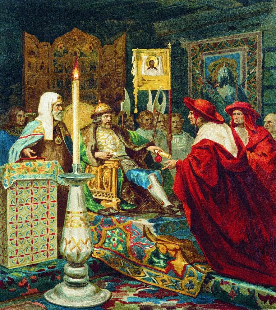 Sketch for the mural of the Cathedral of Christ the Savior in Moscow.